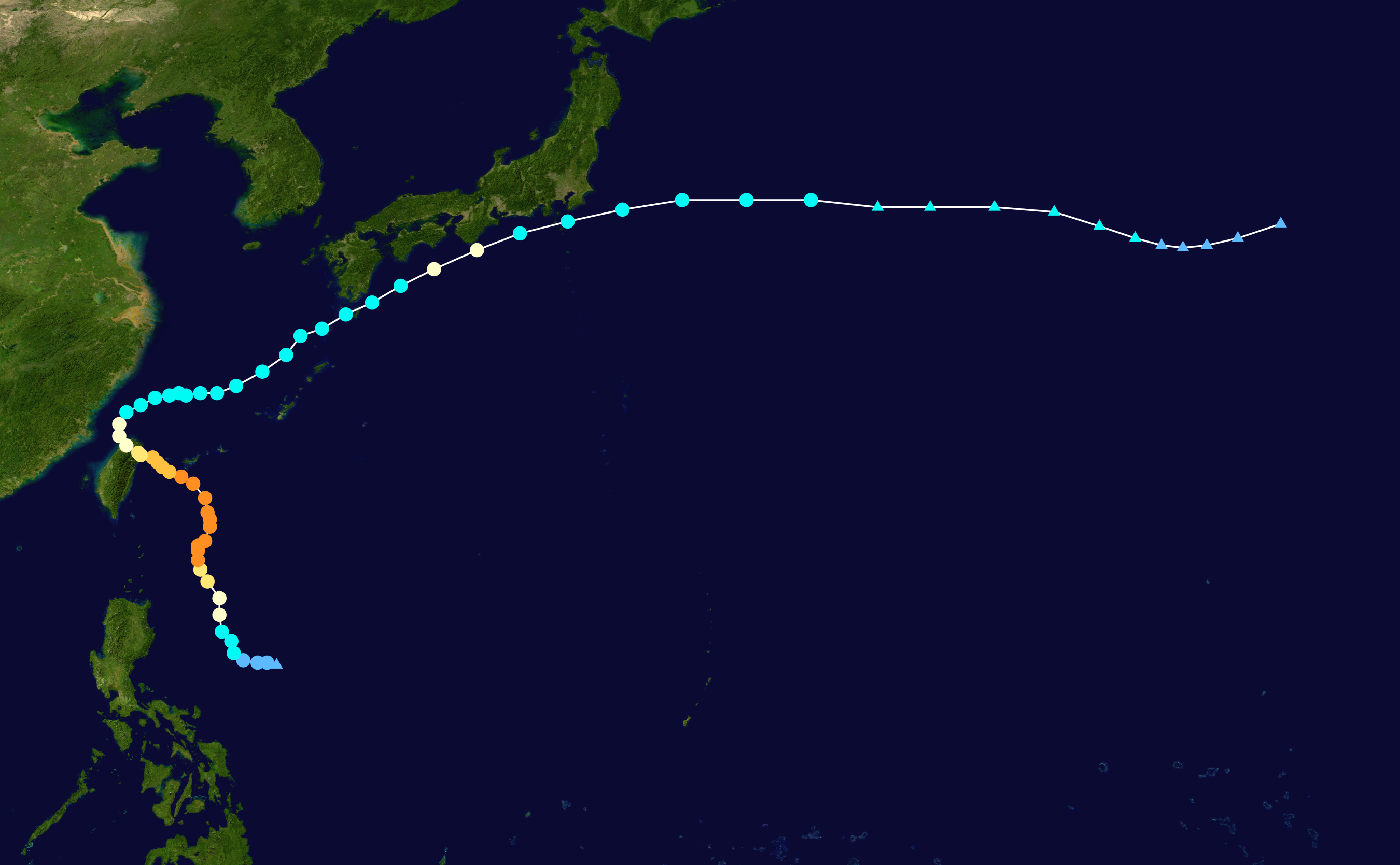 Track map of Typhoon Sinlaku of the 2008 Pacific typhoon season. The points show the location of the storm at 6-hour intervals. The colour represents the storm's maximum sustained wind speeds as classified in the Saffir–Simpson scale (see below), and the shape of the data points represent the nature of the storm, according to the legend below. Saffir–Simpson scale Tropical depression≤38 mph≤62 km/h Category 3111–129 mph178–208 km/h Tropical storm39–73 mph63–118 km/h Category 4130–156 mph209–251 km/h Category 174–95 mph119–153 km/h Category 5≥157 mph≥252 km/h Category 296–110 mph154–177 km/h Unknown Storm type Tropical cyclone Subtropical cyclone Extratropical cyclone / Remnant low / Tropical disturbance / Monsoon depression